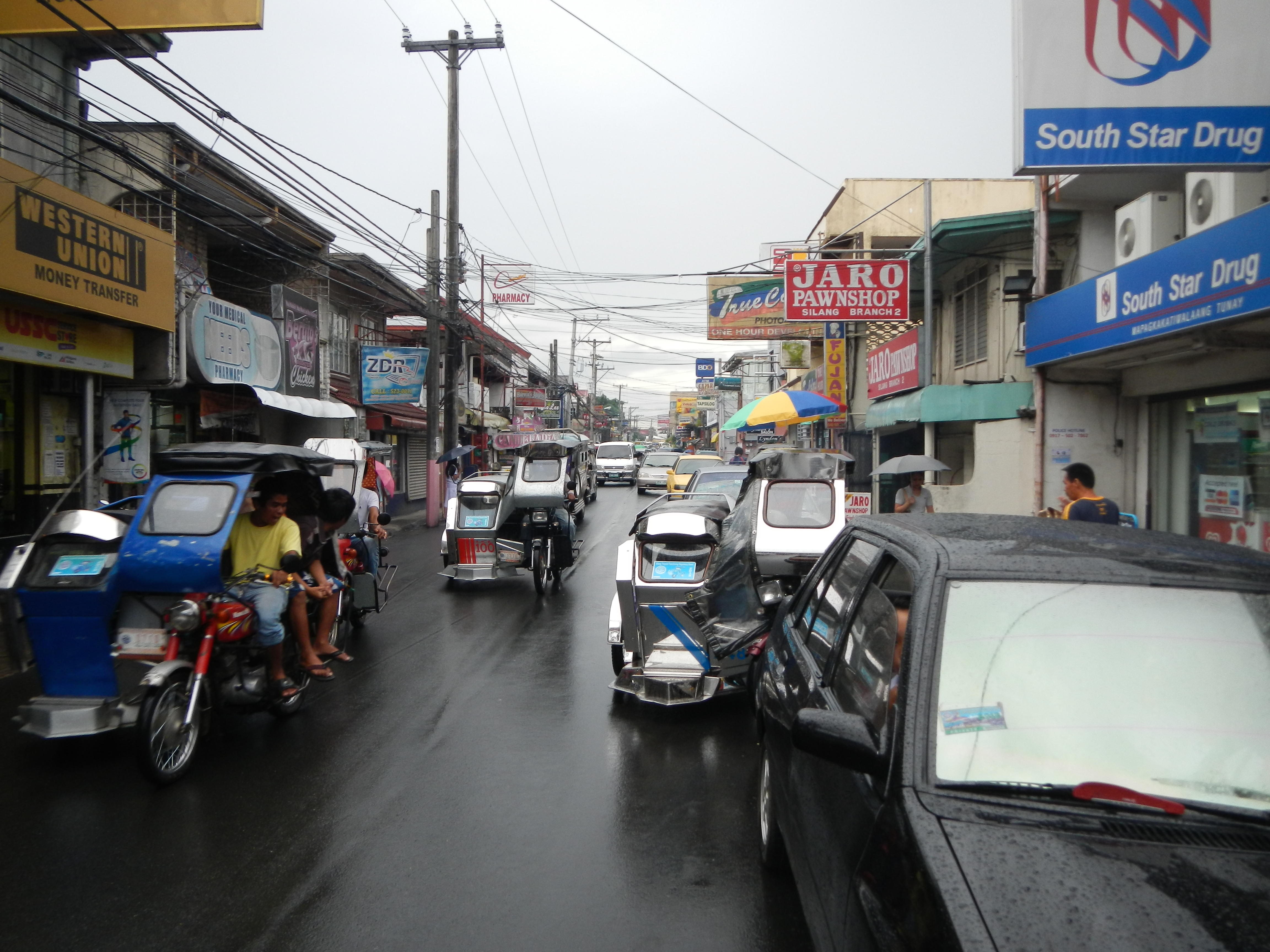 Town hall, plaza and downtown of Silang, Cavite[1] The Municipality of Silang (Filipino: Bayan ng Silang) is a first class landlocked municipality in the province of Cavite, Philippines. According to the 2010 census, it has a population of 213,490 people in an area of 209.4 square kilometers (80.8 sq mi). Silang is located in the eastern section of Cavite. This is the location of Philippine National Police Academy and PDEA Academy.